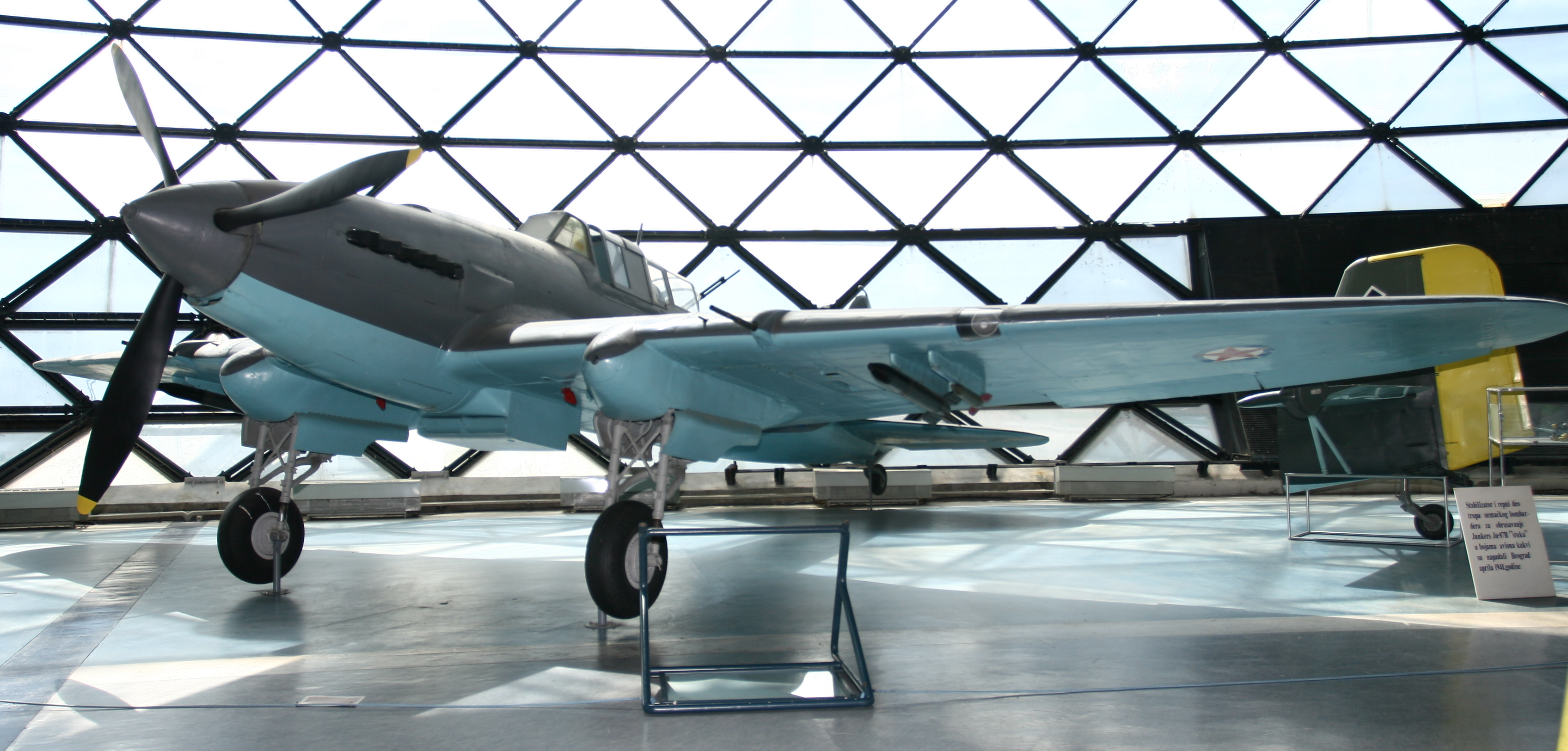 Iljushin IL-2 Sturmovik